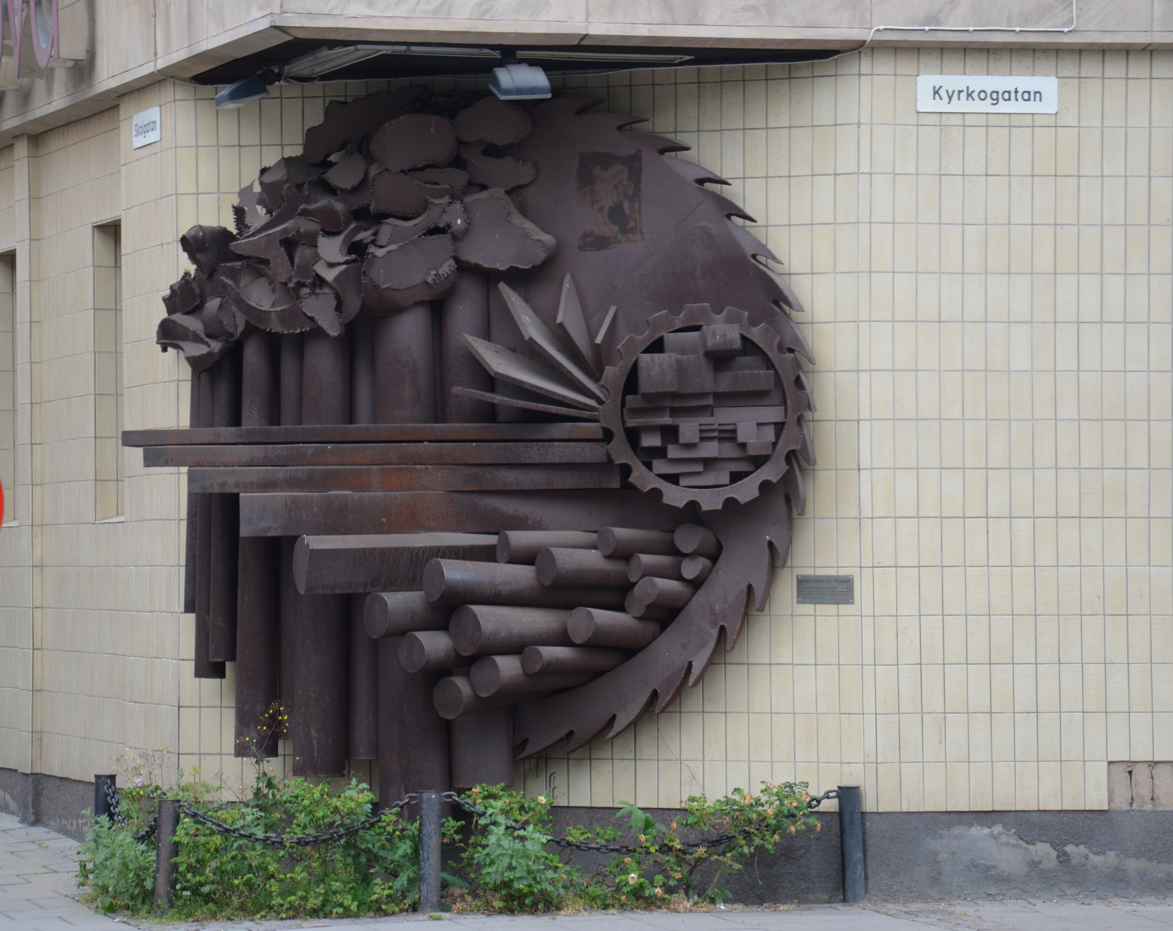 Staffan Östlunds Från stock till planka, 1978, cortenstål, hörnet Skolgatan/Kyrkogatan i Jönköping